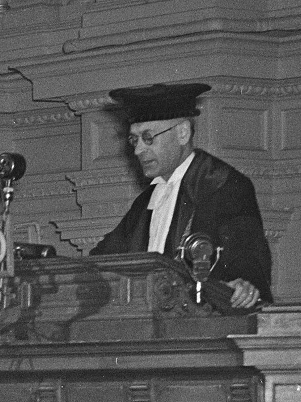 Jan Romein speaking at the honorary doctorate ceremony of Henriëtte Roland Holst-van der Schaik (and 3 others), 20 May 1947 Amsterdam.